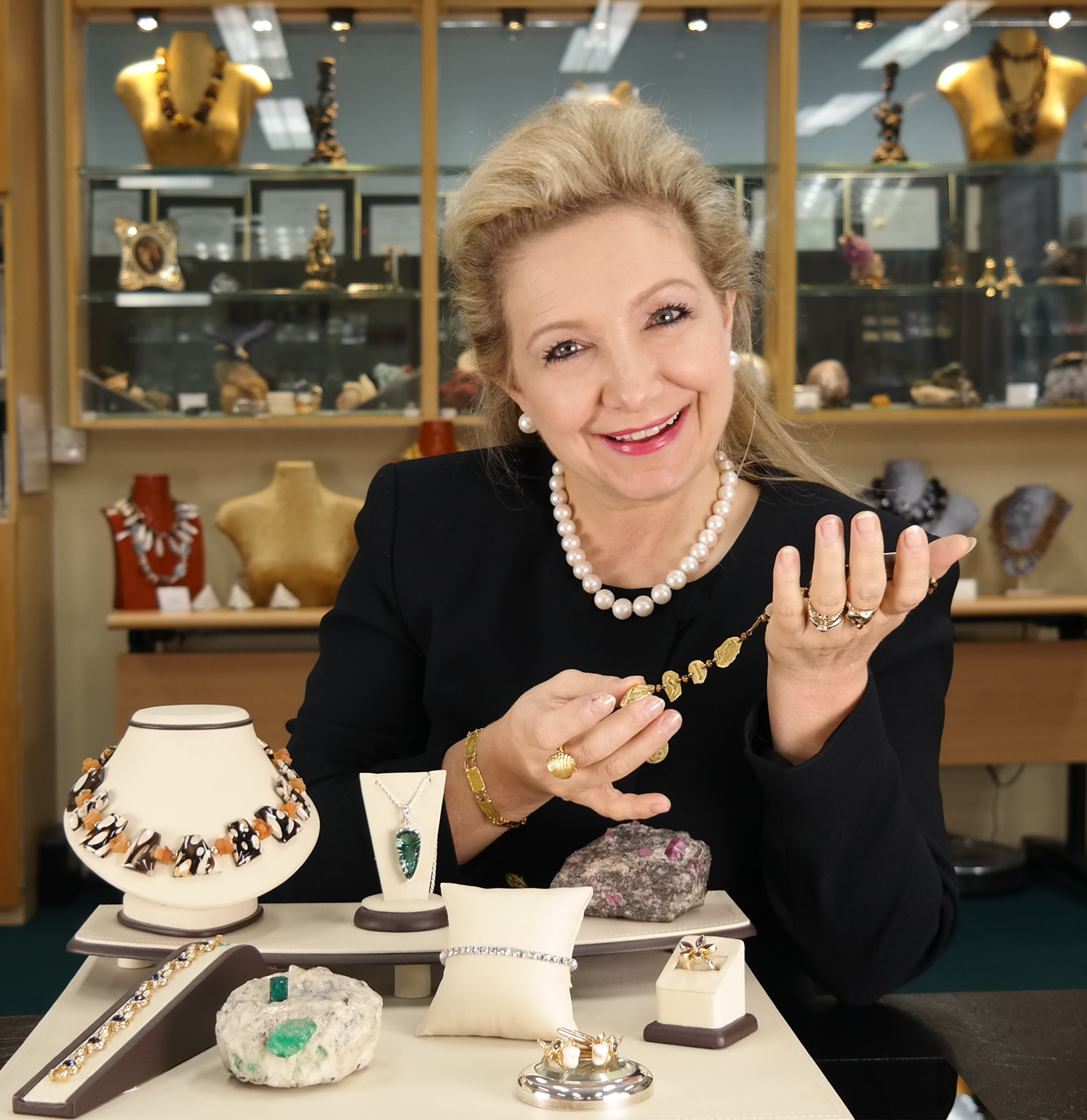 Photograph of Tanja Manuela Sadow, dean and director of the Jewellery Design and Management International School in Singapore